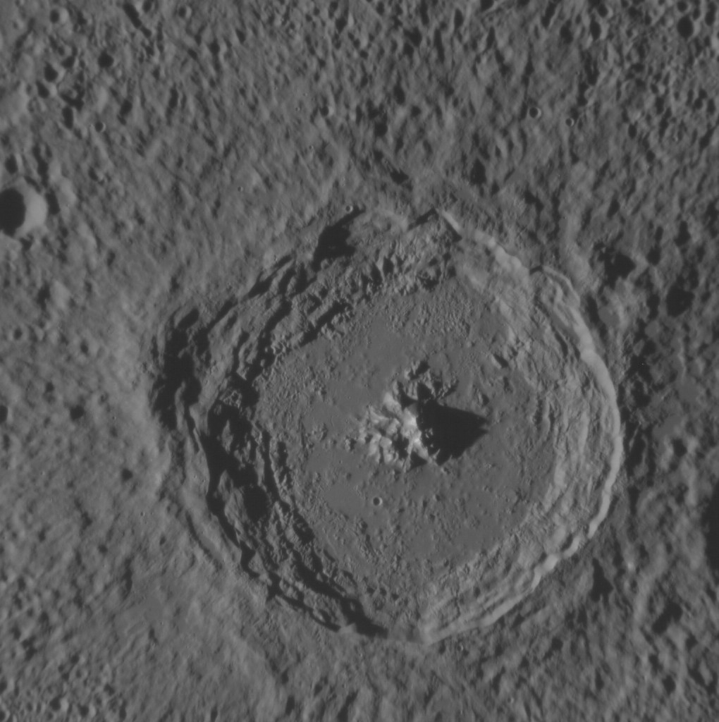 Alencar crater on Mercury. MESSENGER Narrow Angle Camera. North is at bottom. Emission Angle: 13.0 Incidence Angle: 79.6 Latitude: -63.9 Longitude: 257.3 Phase Angle: 66.6